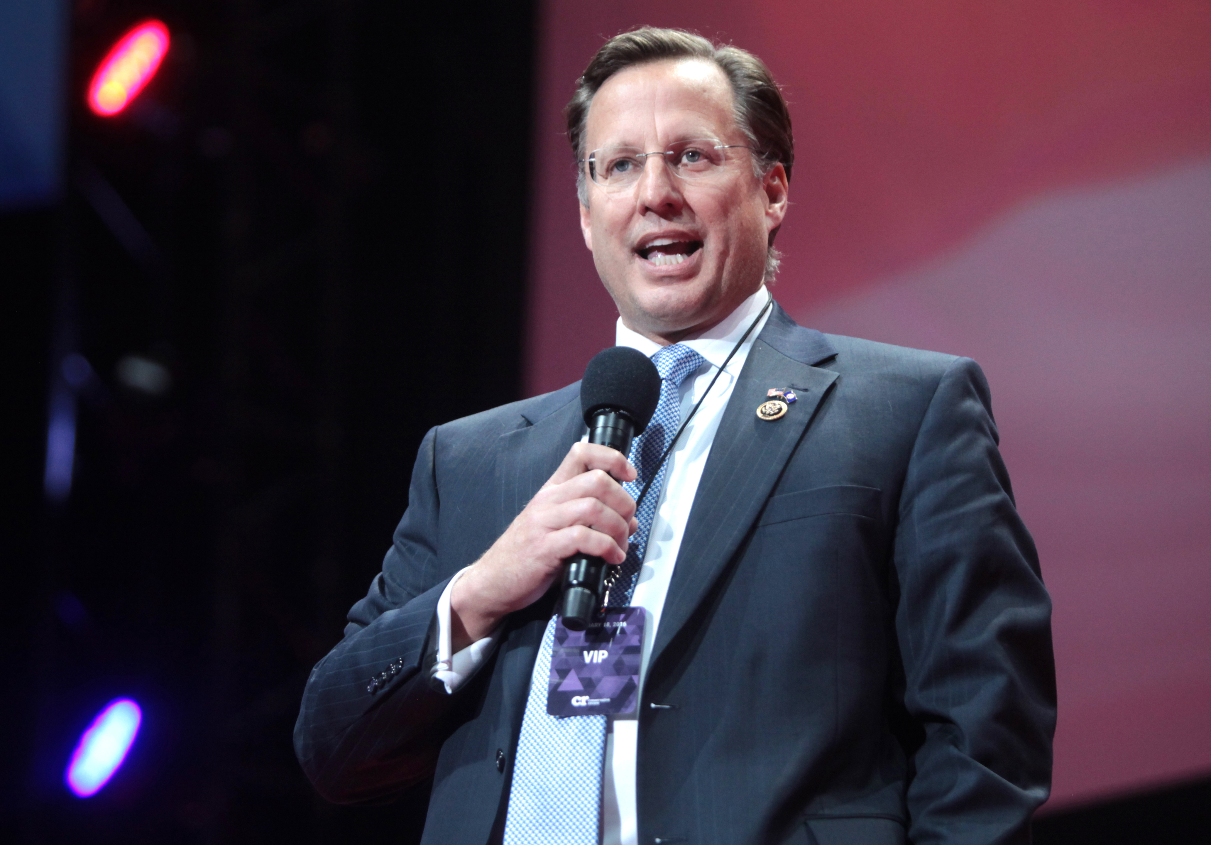 Dave Brat speaking at an event in Greenville, South Carolina.